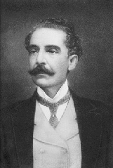 The Brazilian politician José Pinheiro Machado.